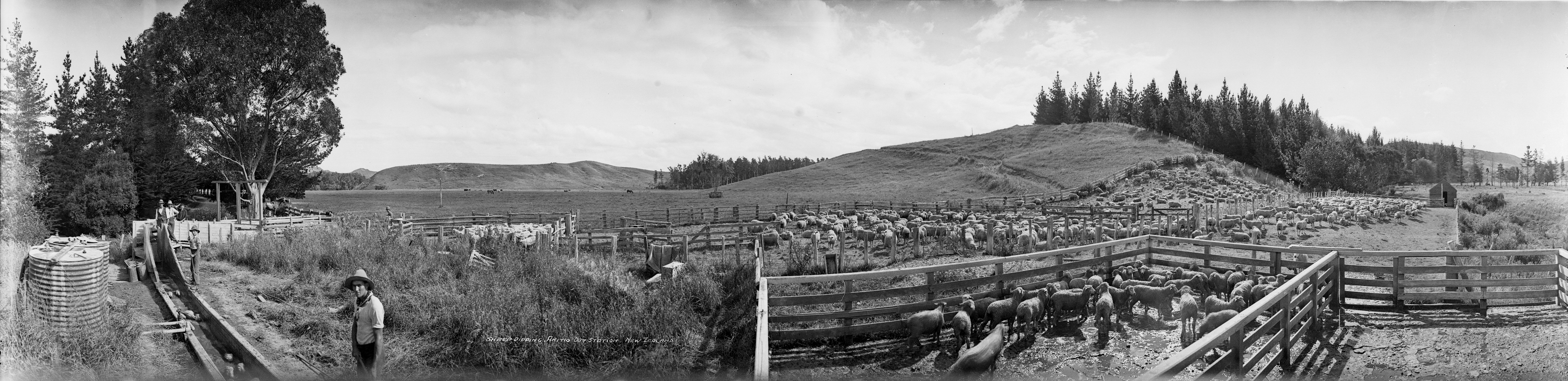 Photographer: Robert Percy Moore Sheep dipping, Akitio Outstation, between 1923-1928 Panoramic negative Reference No. Pan-1620-F Photographic Archive, Alexander Turnbull Library, National Library of New Zealand from the